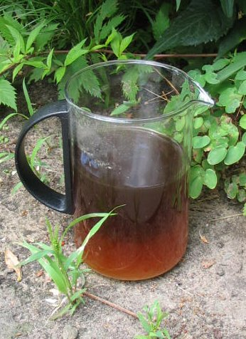 Worldwide: various ecosan teaching photos